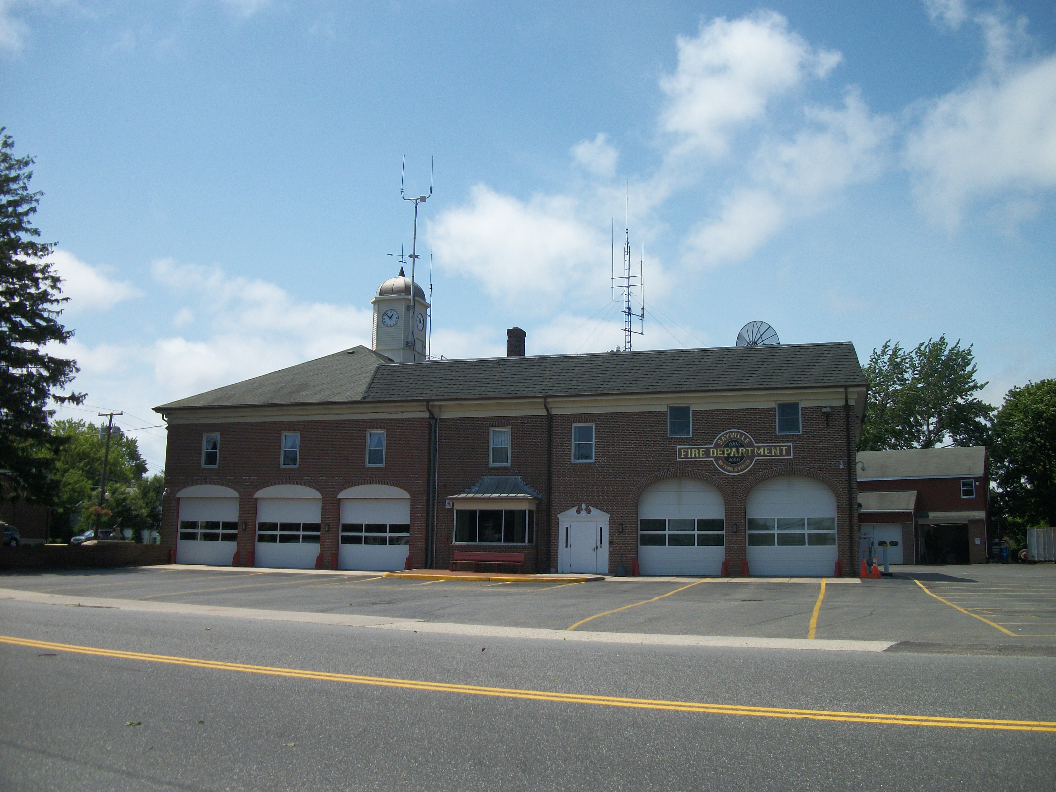 Sayville Fire Department as seen from Lincoln Avenue in Sayville, New York.